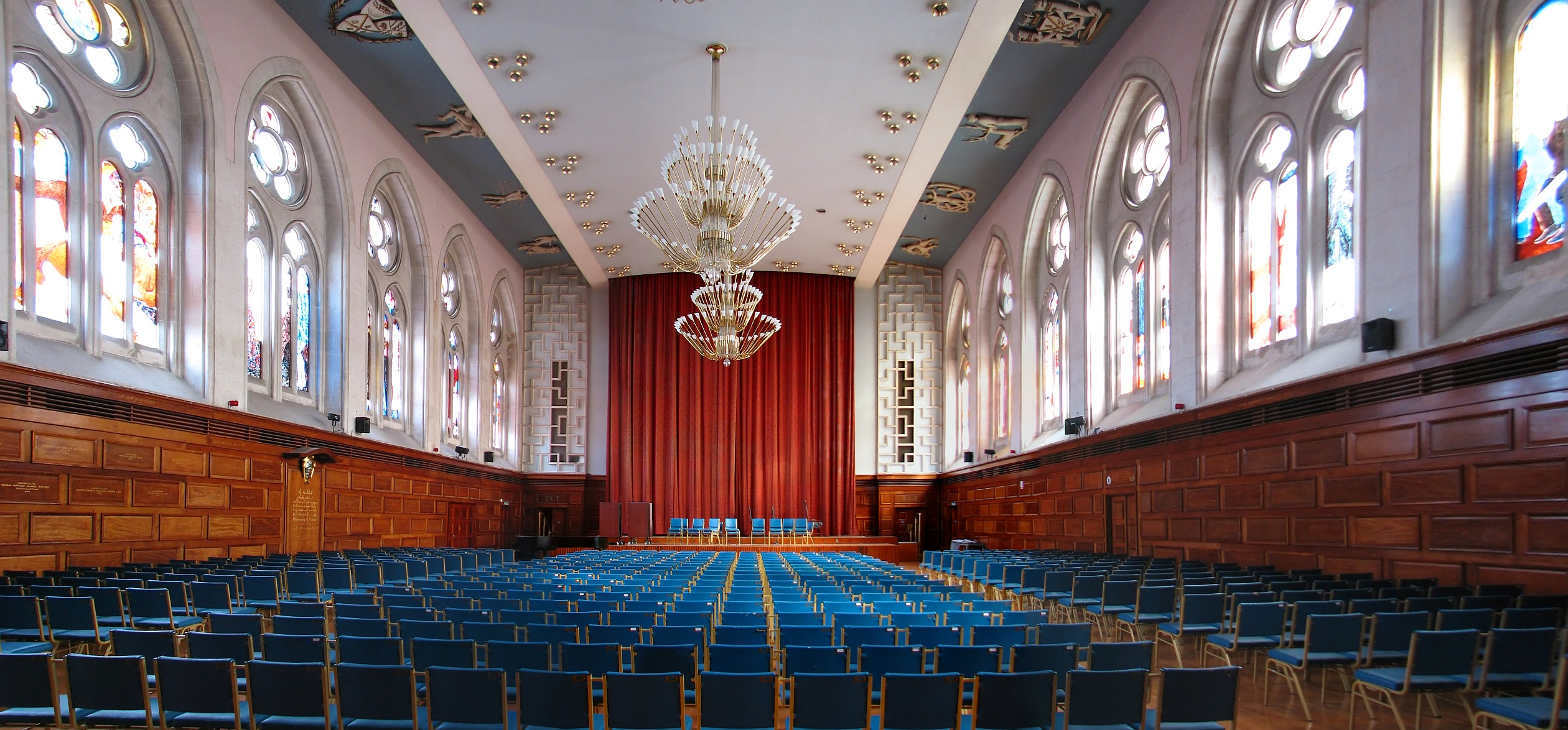 The Great Hall in the Guildhall, Plymouth, Devon, England. Built 1870-74, but remodelled after World War II.